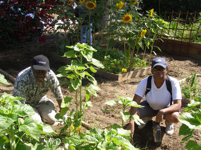 St Luke's parishoners working in the garden.